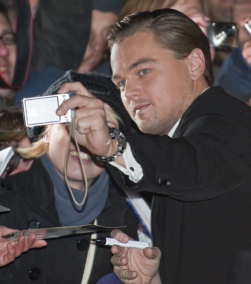 Leonardo DiCaprio at the Cinema for Peace gala, Gendarmenmarkt, Berlin